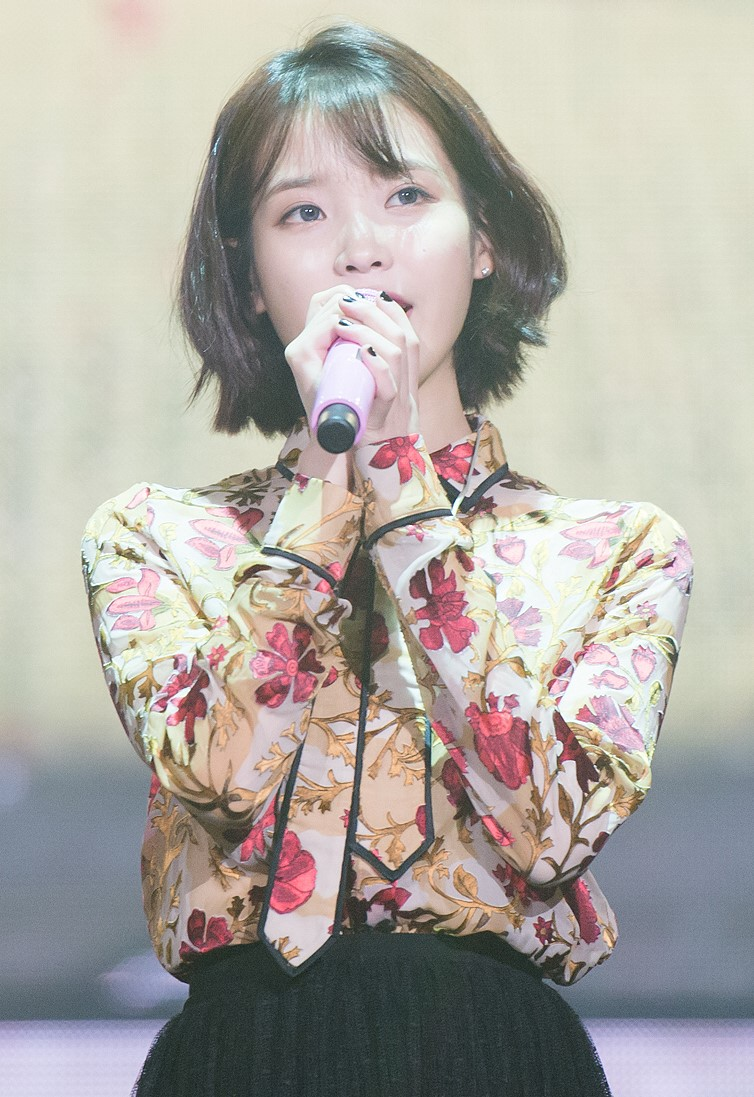 IU at "24 Steps - One, Two, Three, Four" concert, 3 December 2016